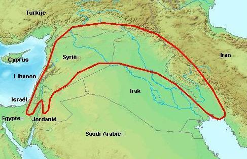 The "Fertile Crescent" of the Middle East.